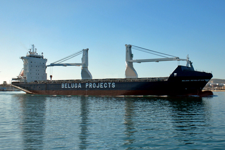 heavy lift carrier beluga revolution